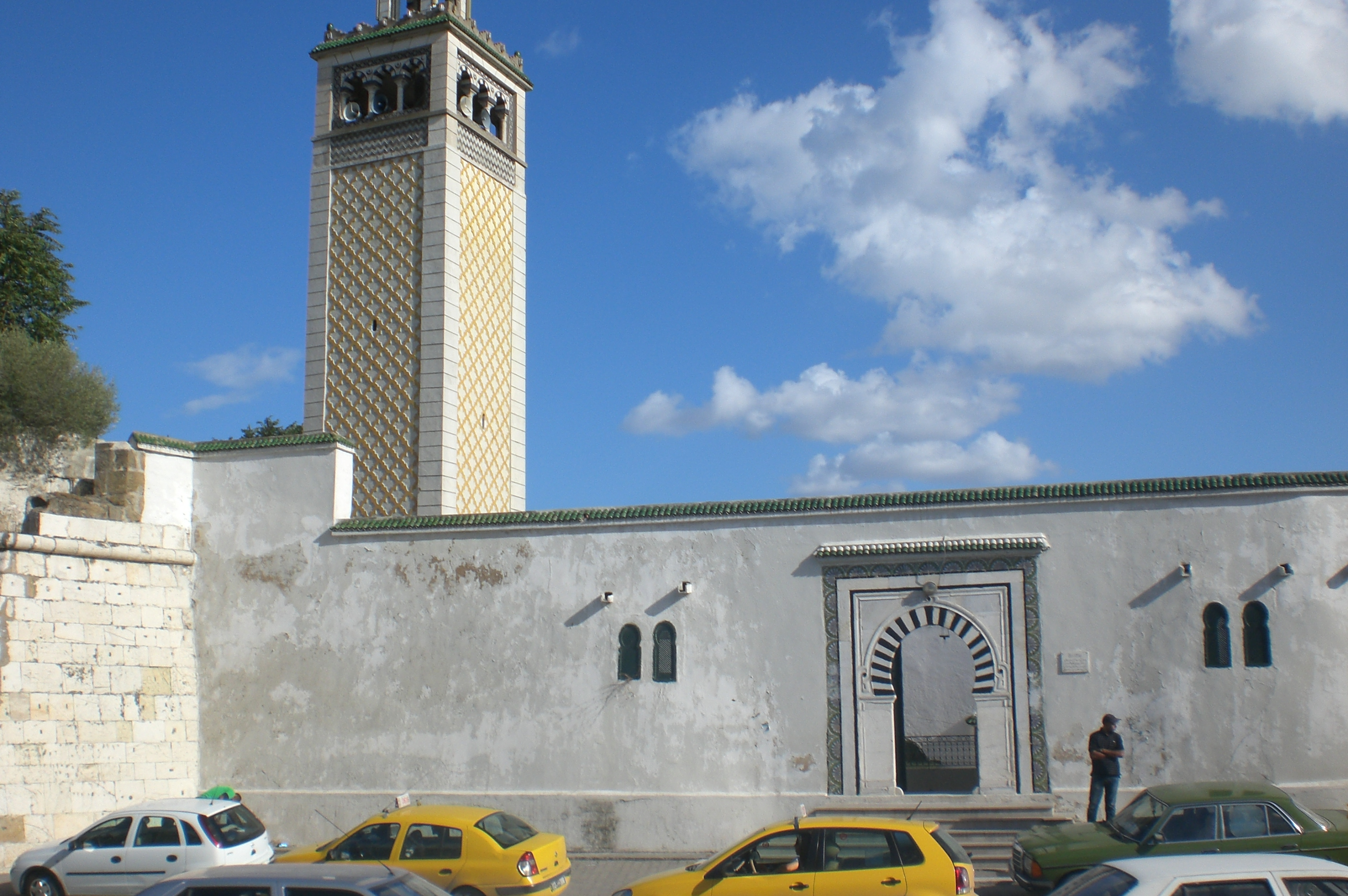 The Mosque called El Bordj-Tunis